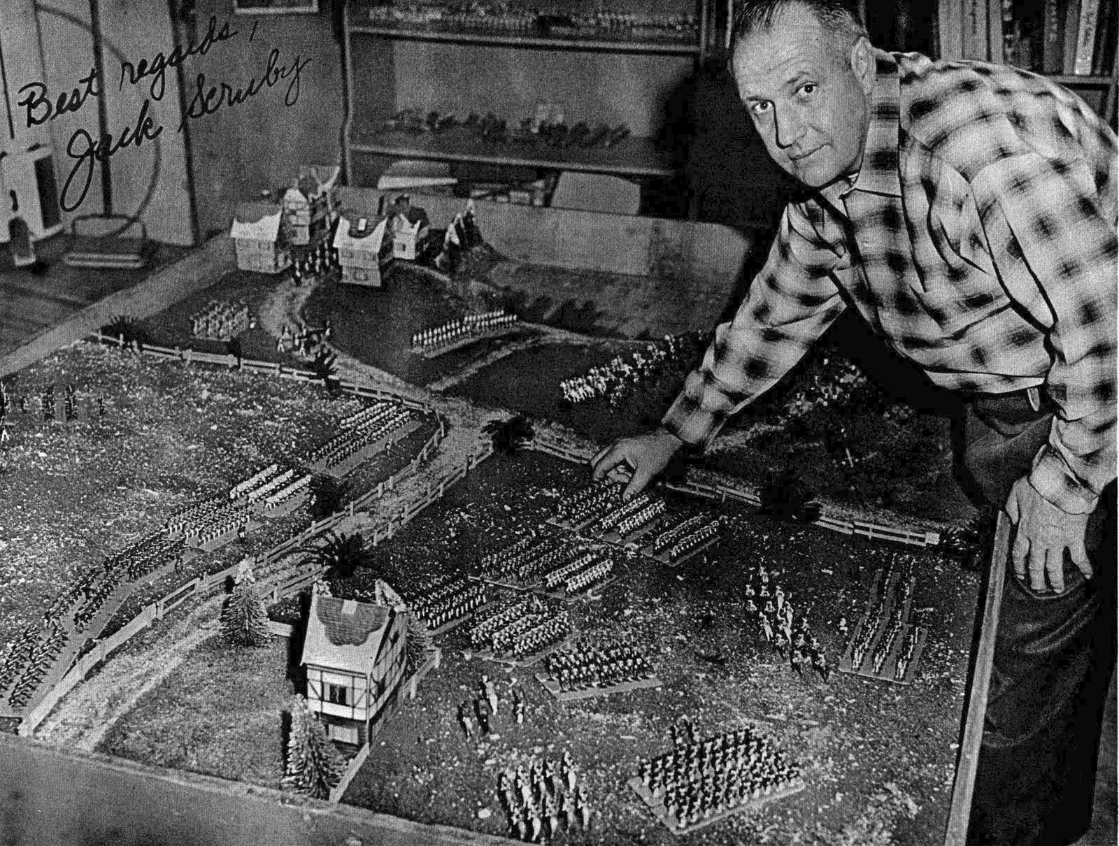 Jack Scruby, miniature wargaming enthusiast and model maker, from his 1962 catalogue.